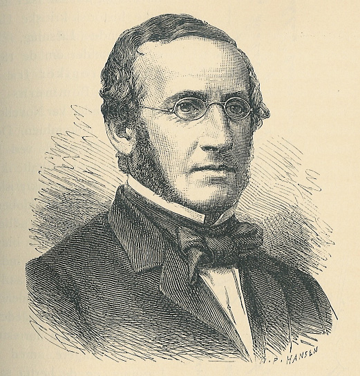 Forfatteren Carl Bernhard (pseudonym for A.N. de Saint-Aubain).